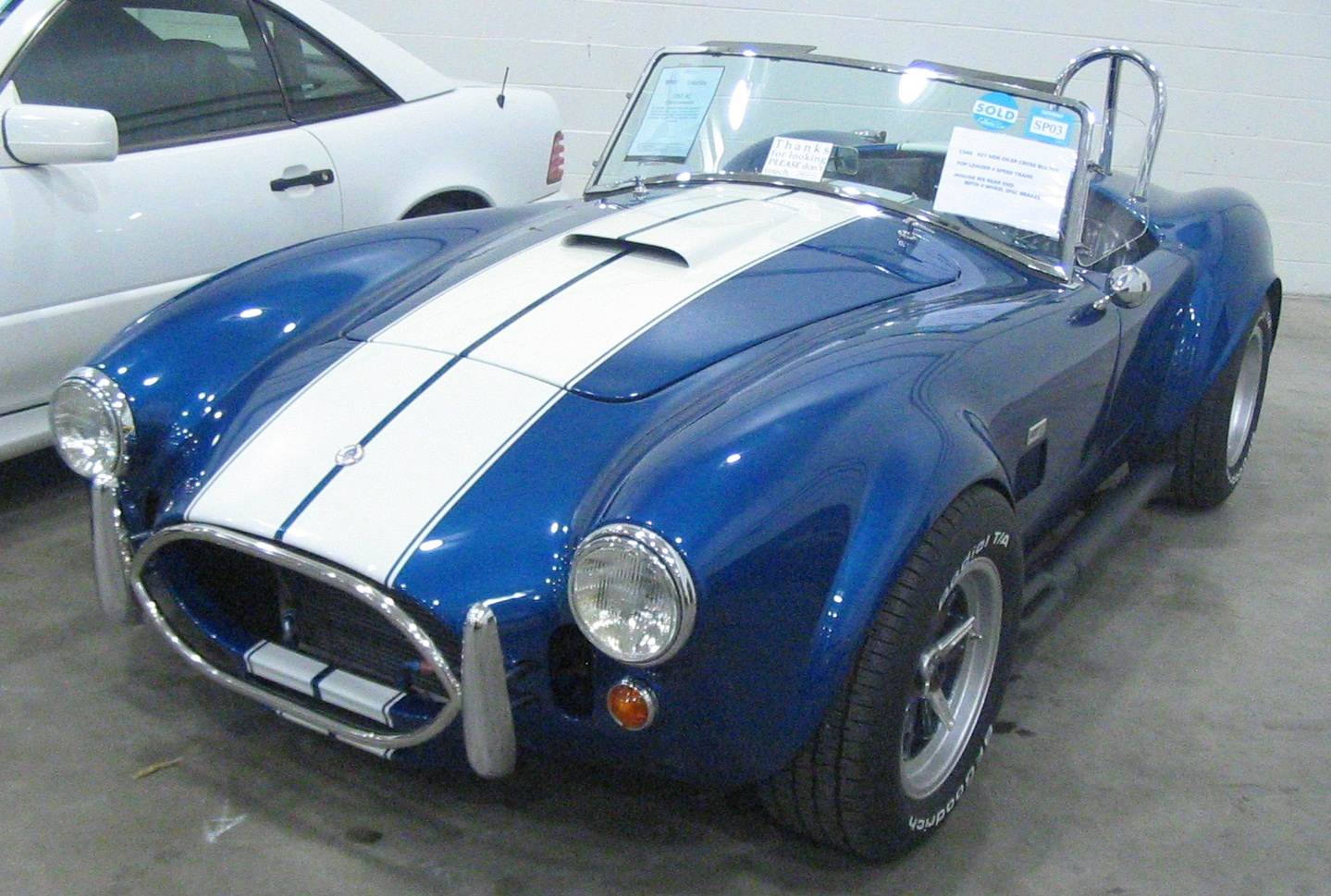 1965 AC Cobra photographed in Mississauga, Ontario, Canada at the Toronto Classic Car Auction of spring 2012.